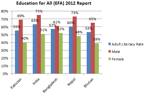 Adult Literacy Rate EFA 2012